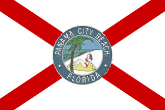 This flag is a symbol of the City of Panama City Beach.